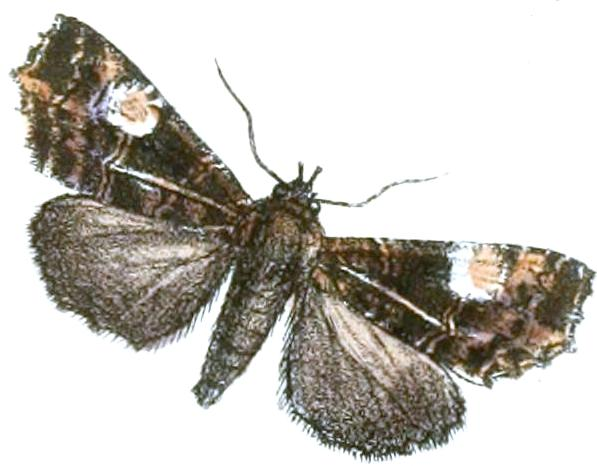 A female noctuid moth from Bengal